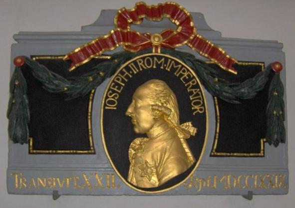 Memorial plaque of Joseph II, Holy Roman Emperor in Děčín (The Czech Republic)